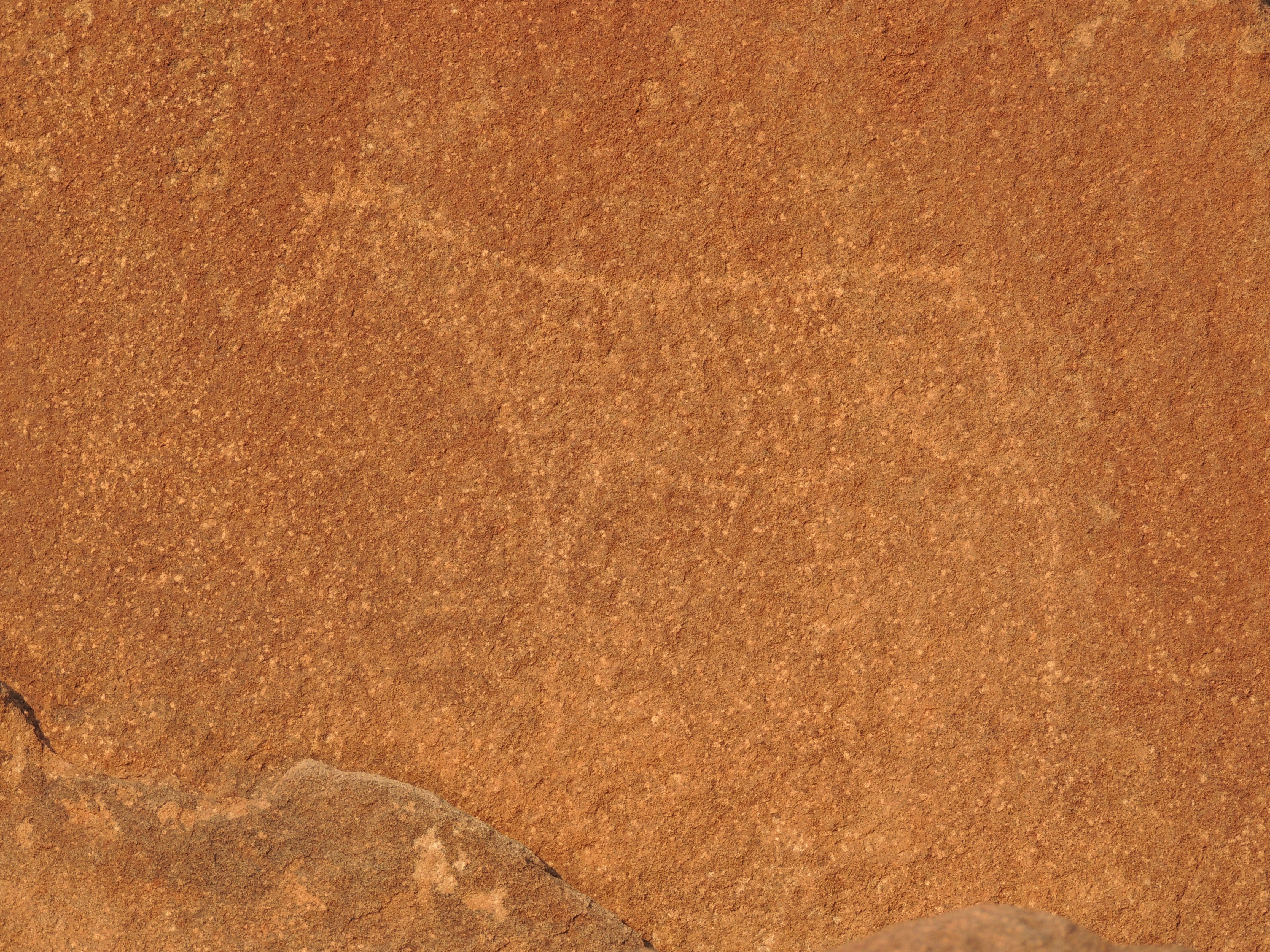 Twyfelfontein 3